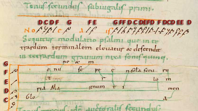 Tonary with Dasia signs (about 1000): Staatsbibliothek Bamberg, Ms. Varia 1, fol. 44 recto